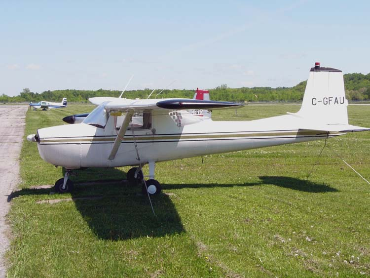 Cessna 150E (C-GFAU)